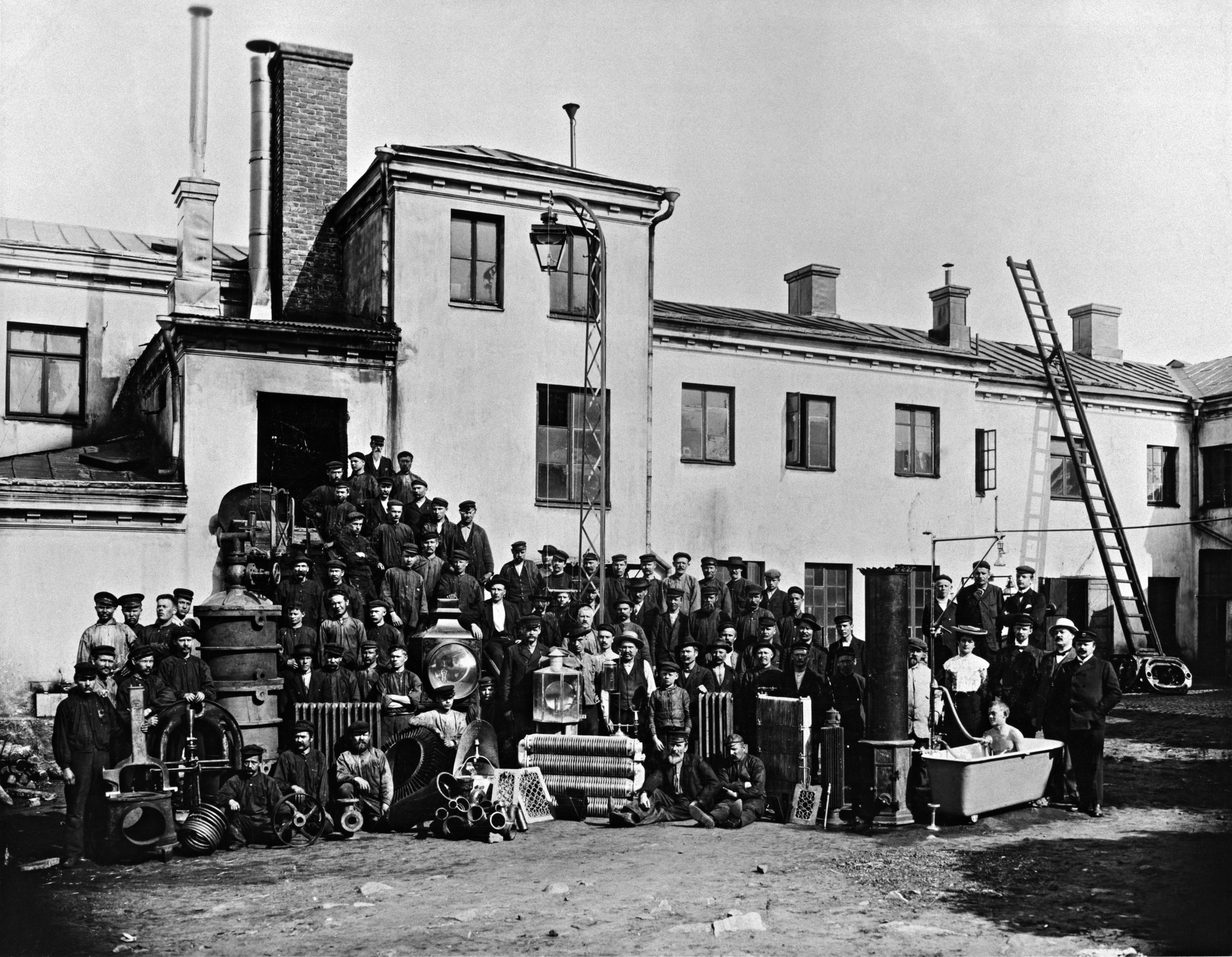 Factory workers of AB Vesijohtoliike Oy (Huber) in the 1910s outside of the factory in a group hoto. Taken in Köydenpunojankatu 4, Helsinki, Finland.